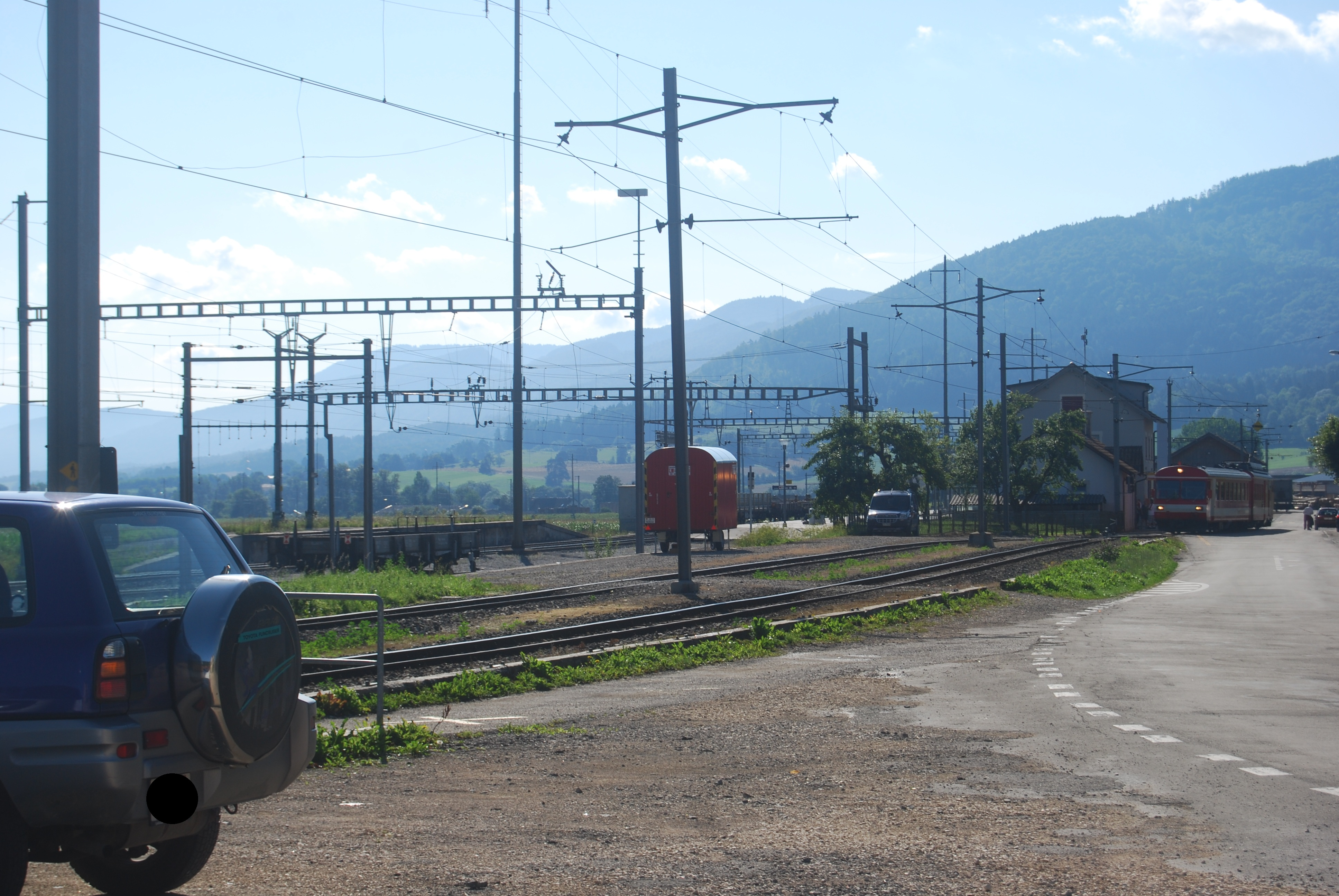 Train station of Glovelier, canton of Jura, SwitzerlandEsperanto: Stacidomo de Glovelier, Kantono Ĵuraso, Svislando